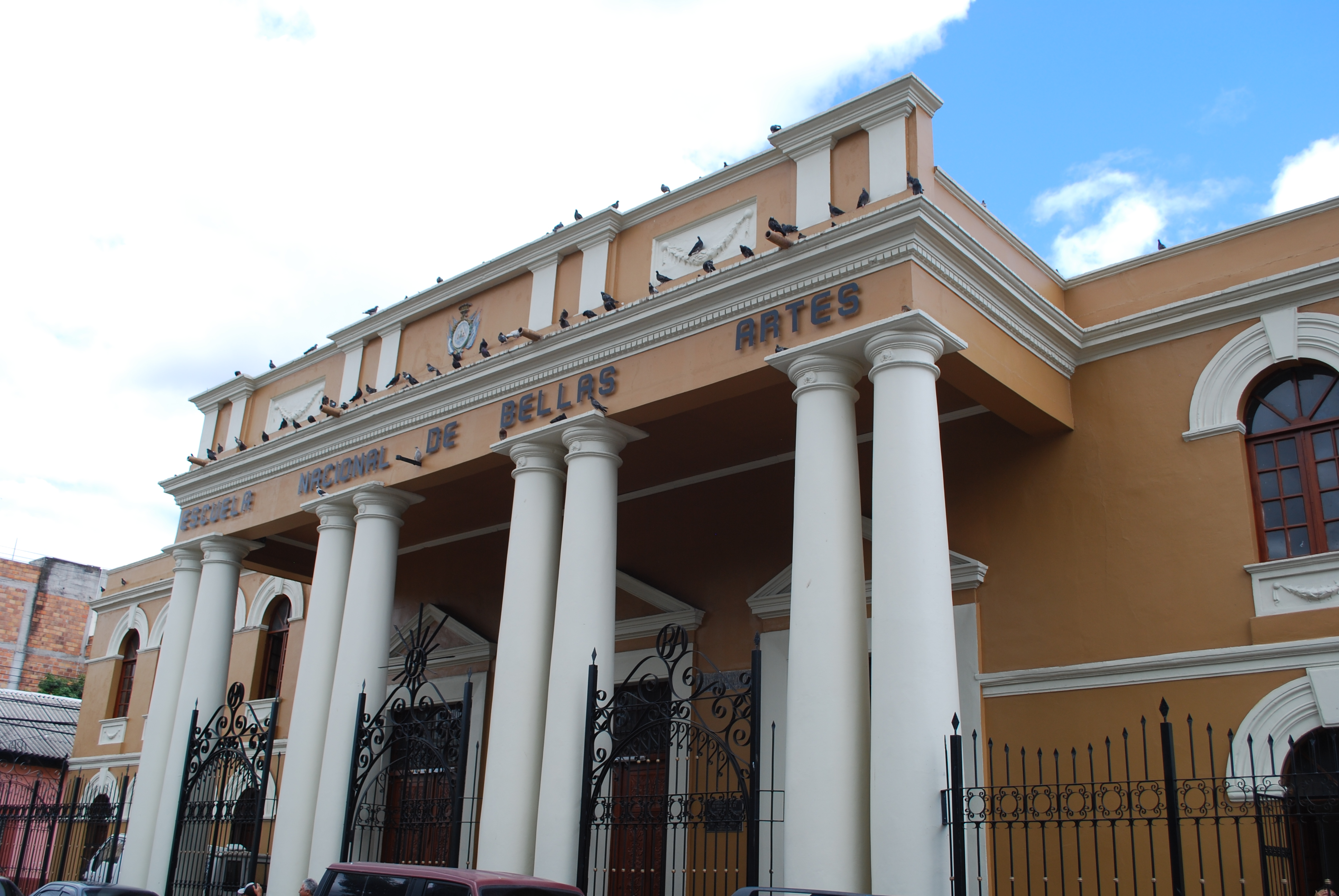 Escuela Nacional de Bellas Artes in Comayaguela, Honduras